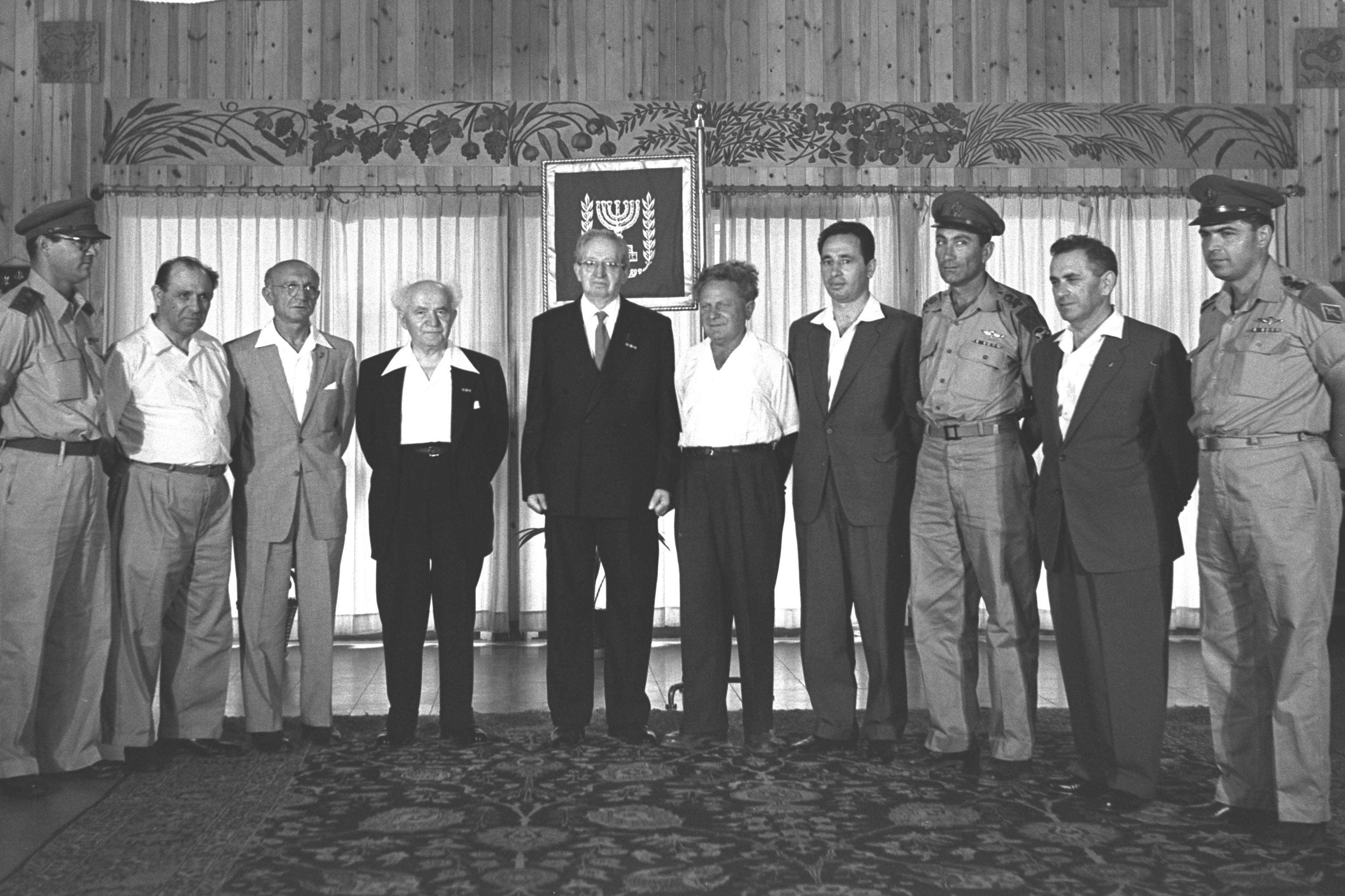 L-R, R/A CHAIM LASKOV,SHAUL AVIGUR,YAACOV DORI DAVID BEN GURION,PRES.BEN ZVI,YISRAEL GALILI,SHIMON PERES, MEIR AMIT, ISRAEL AMIR, MATTITYAHU PELED,AT CEREMONY THE HAGANAH MEDAL.